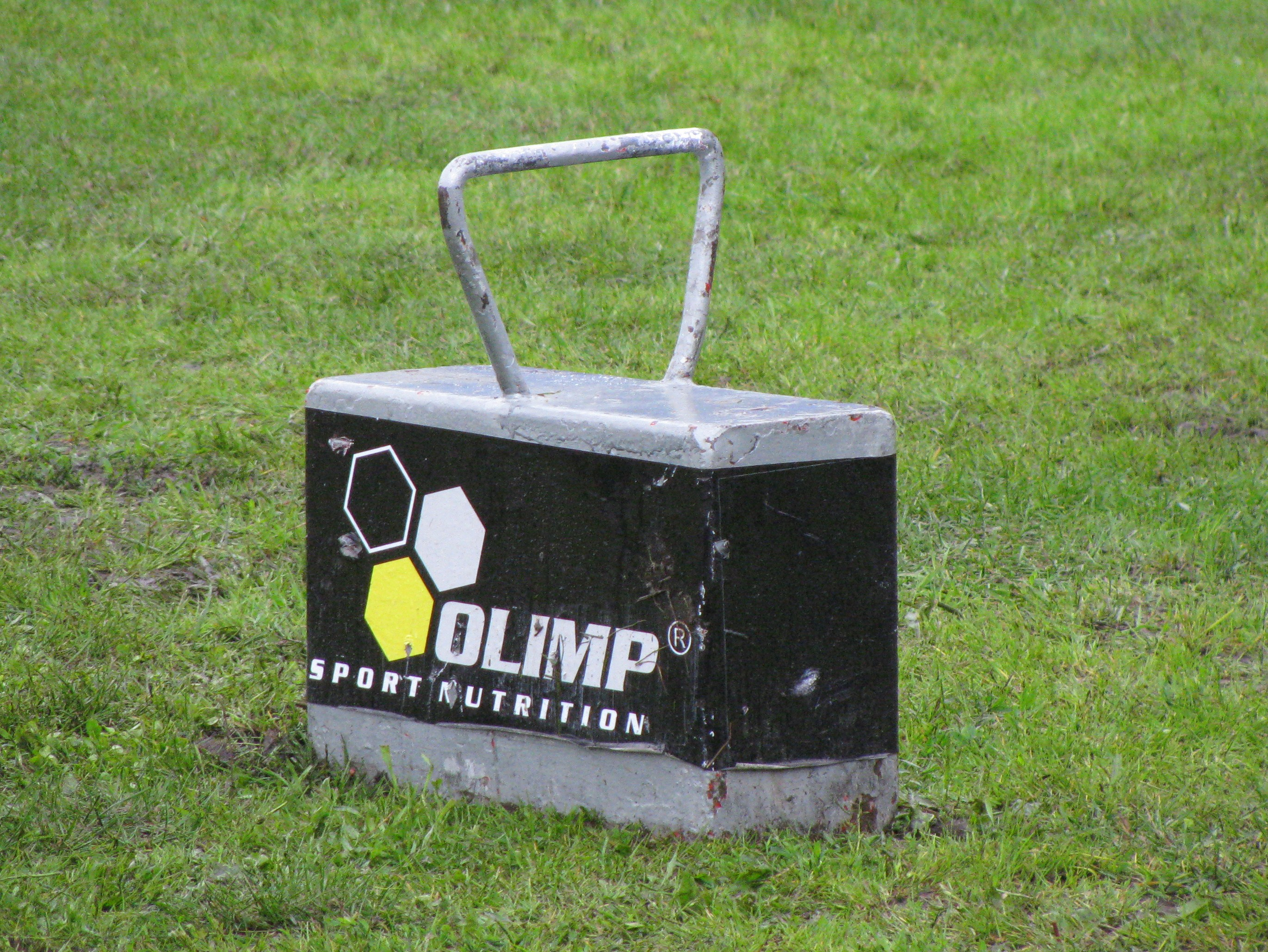 Strongmen exercise: the Duck Walk equipment.